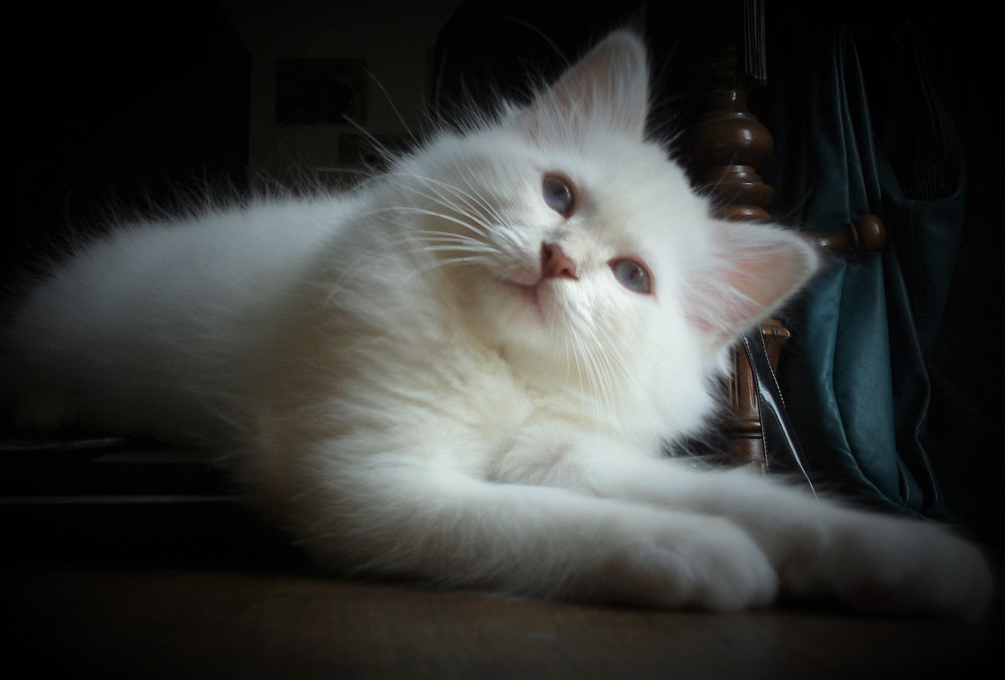 Sacro di Birmania lilac-tabby-point di circa 3 mesi.